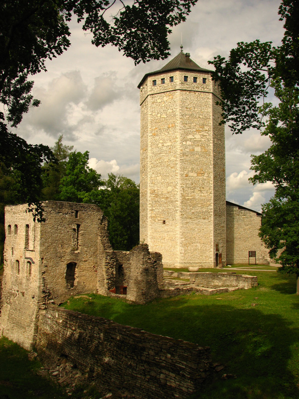 Ruins of a medieval castle in Paide - the symbol of the town.